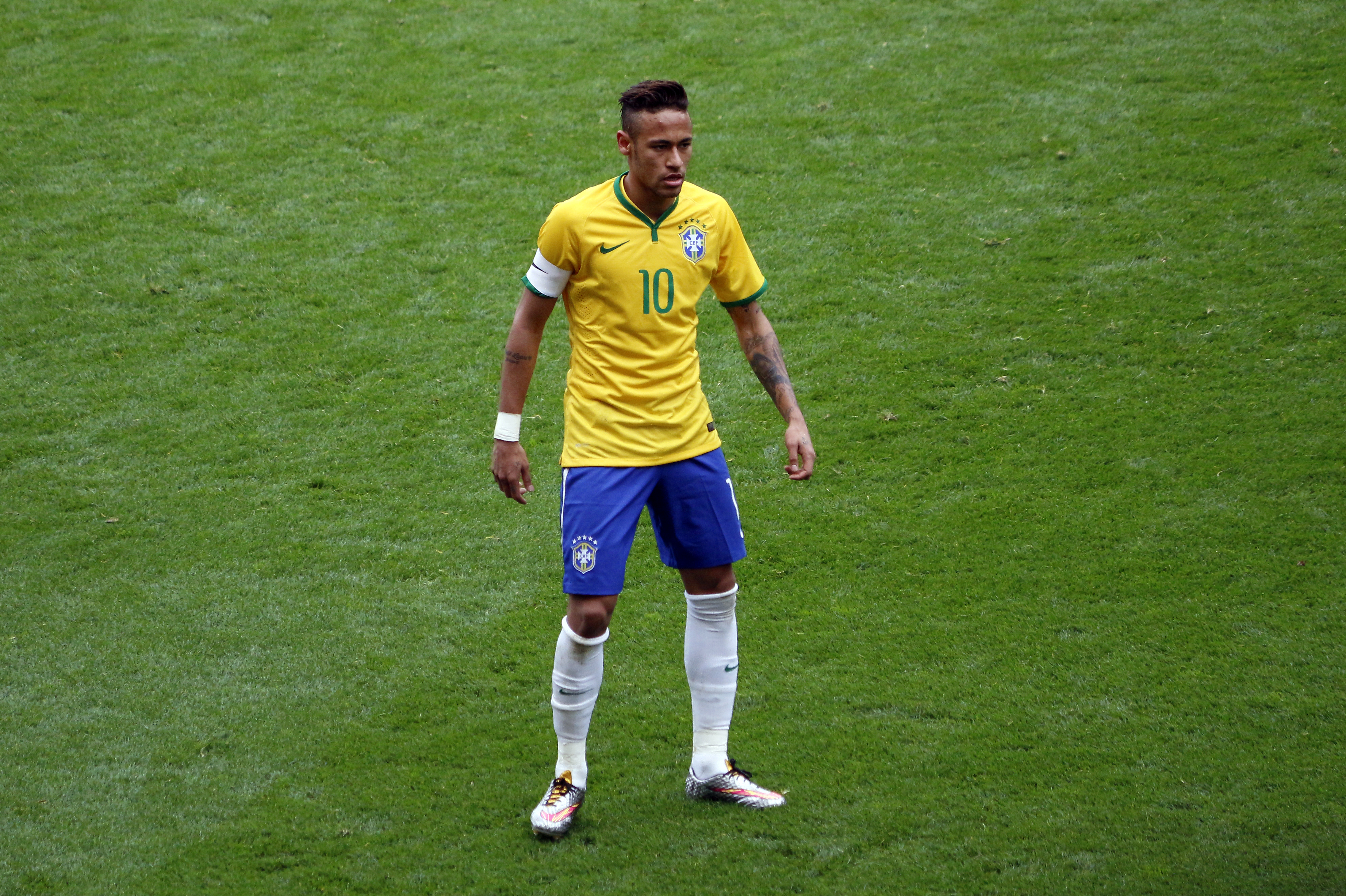 Neymar Brazil vs Chile, International Friendly, 29th March, 2015, Emirates Stadium, London